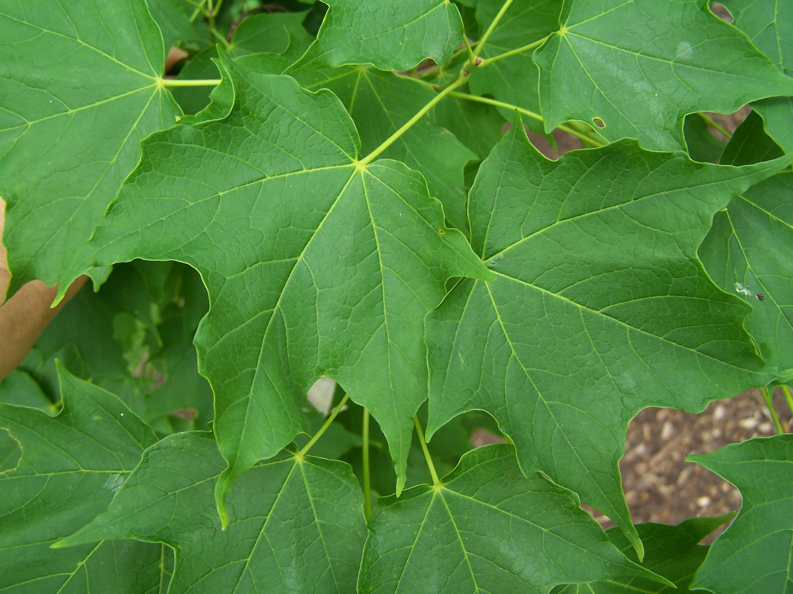 Foliage, sugar maple tree, Acer saccharum. Specimen at Morton Arboretum, Lisle, Illinois. Accession 258-78-1.